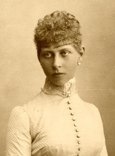 Princess Victoria of Prussia, Venice 1885